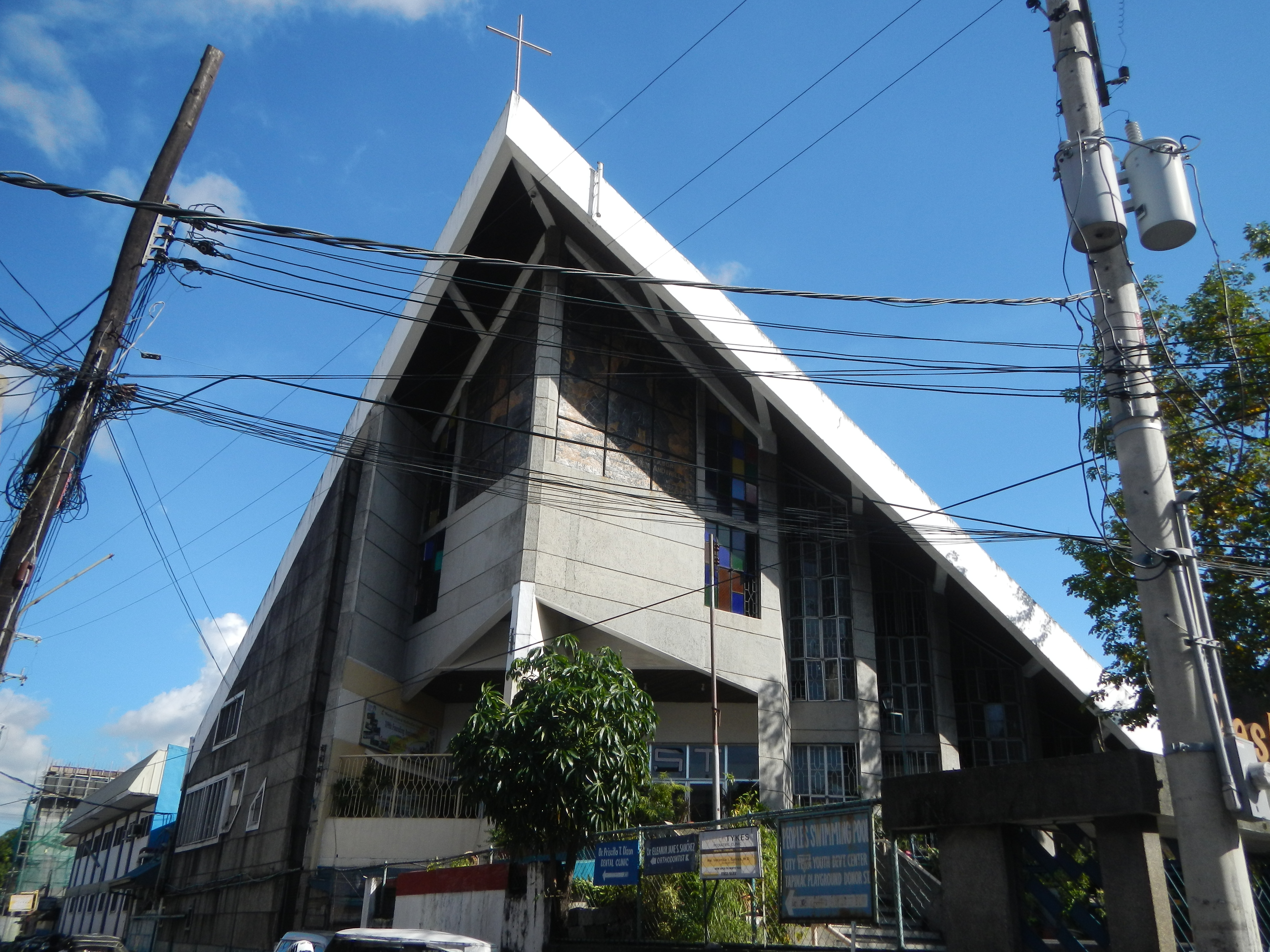 Olongapo City Proper in Rizal Avenue, Rizal Highway, Barangay East Tapinac, Olongapo City, Olongapo Wesley United Methodist Church, and Olongapo Wesley School, at 890 Rizal Avenue Extension (beside and in front of West Tapinac, Olongapo City, Zambales, 1st District of Zambales and near or beside Barangay East Bajac-bajac, Olongapo City, is beside and in front of West Bajac-bajac, Olongapo City).